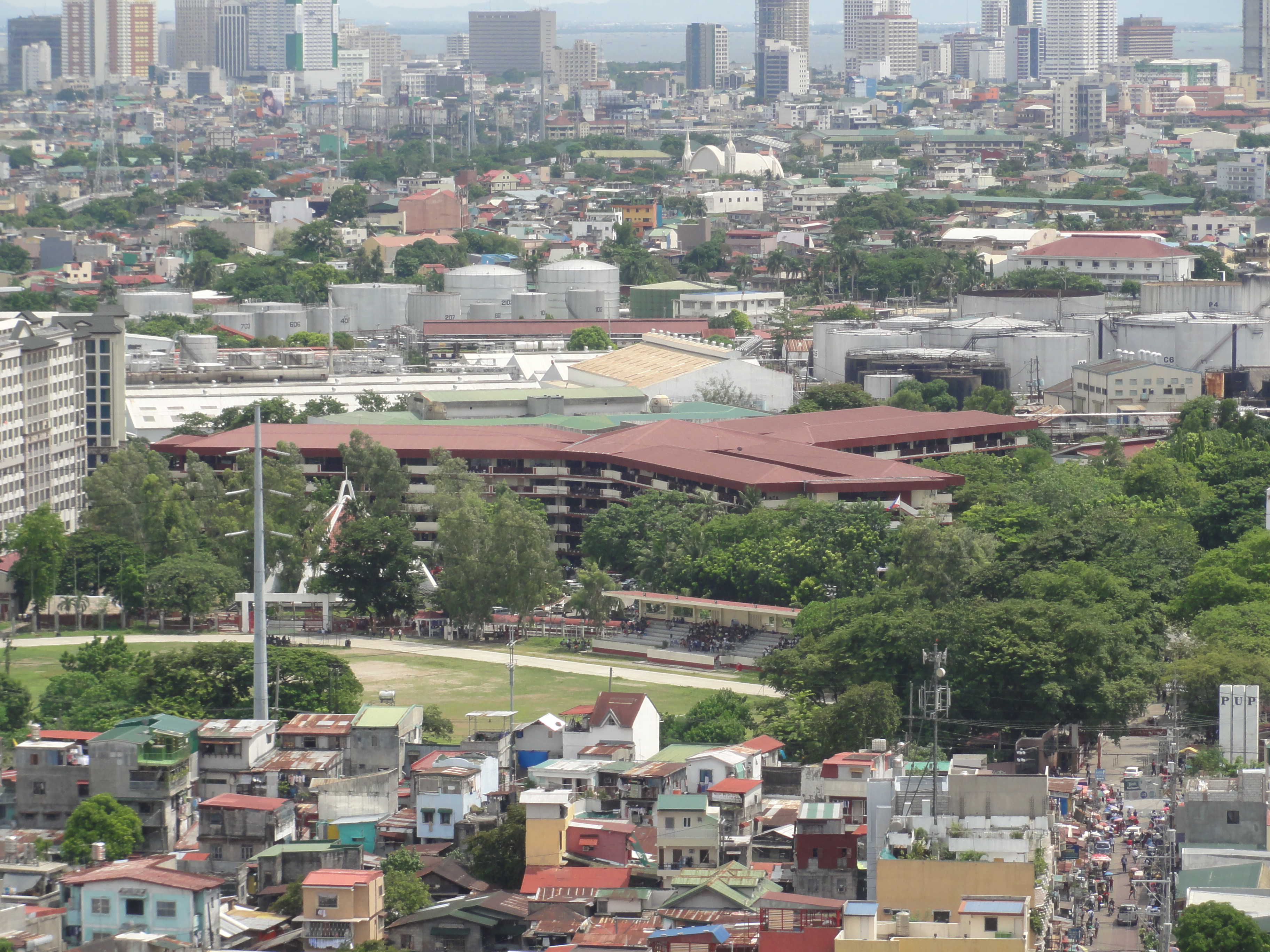 Overlooking of the main building of the Polytechnic University of the Philippines (PUP) Main Campus at Anonas Street, Santa Mesa, Manila. Shot from the roof deck of Sorrel Residences, Santa Mesa, Manila.